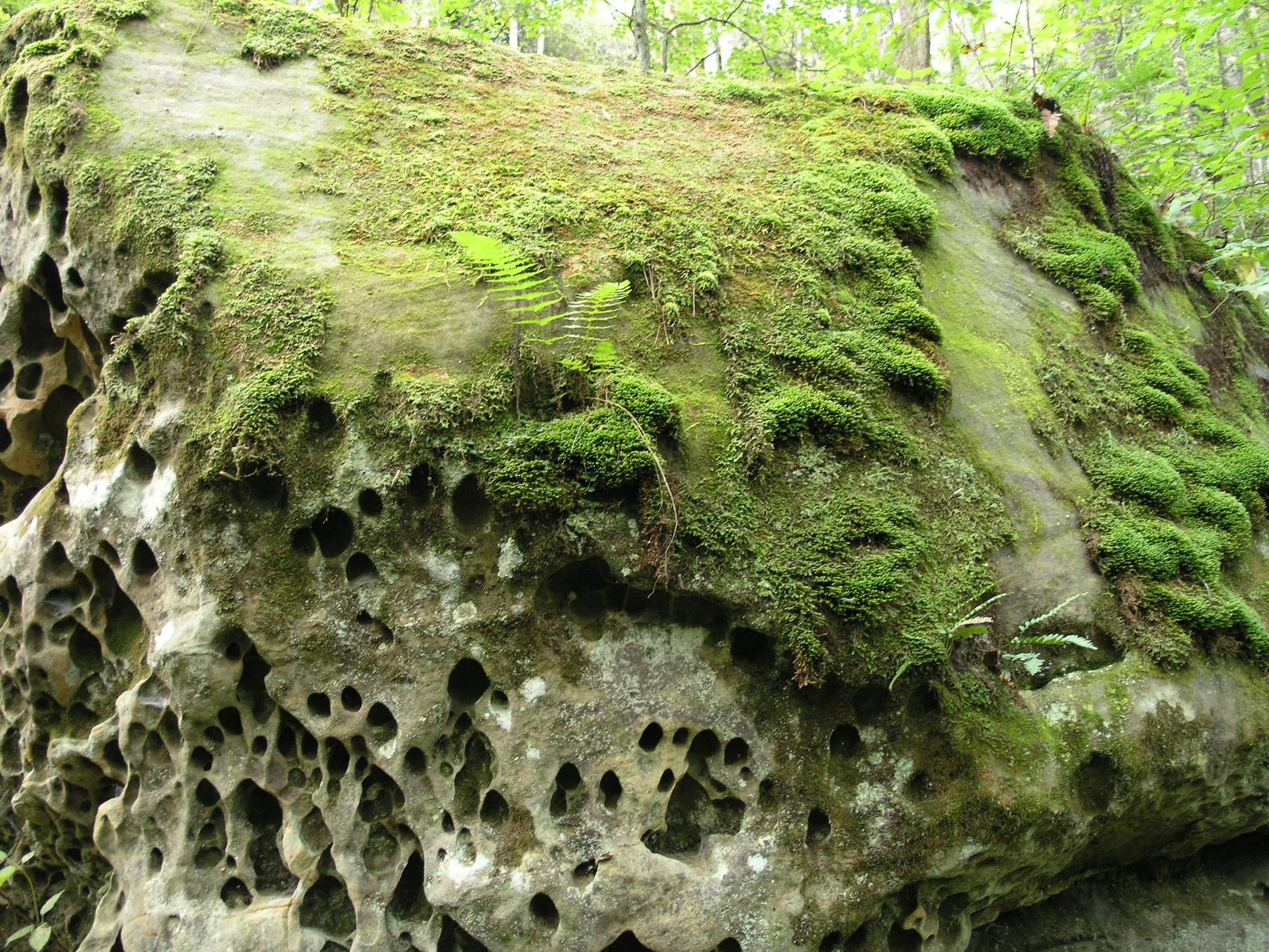 Bazzania trilobata colonies on honeycomb sandstone, Red River Gorge, Daniel Boone National Forest, Kentucky.